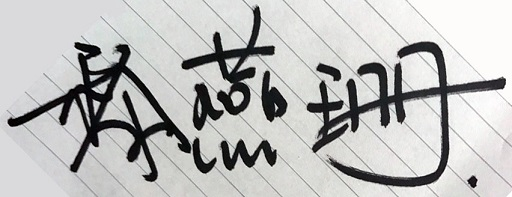 This is Eva Lai 's signature.